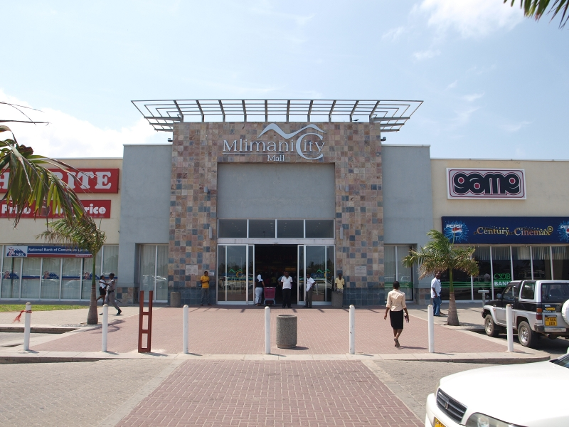 Southern entrance of Mlimani City mall.